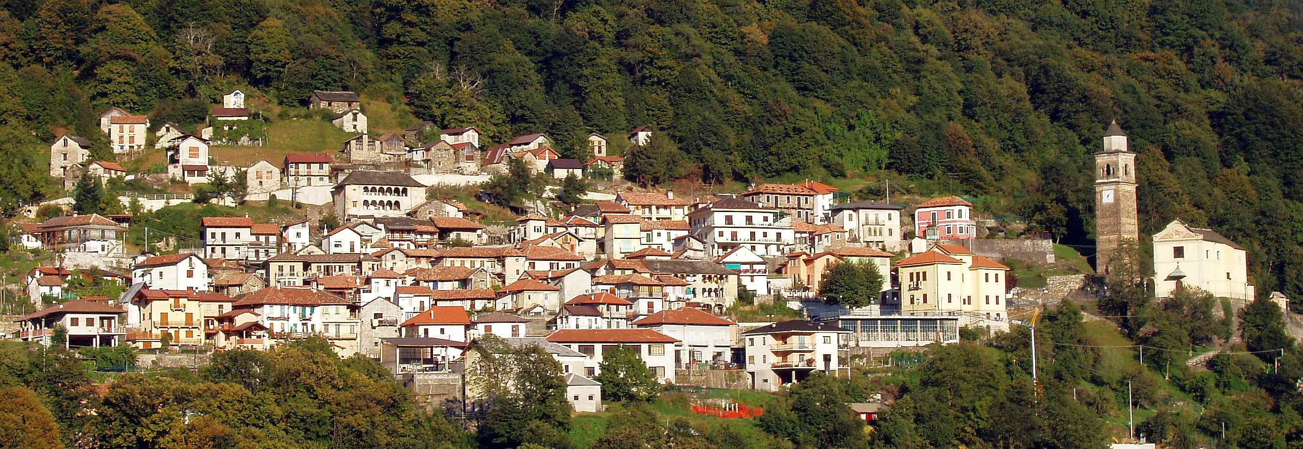 Loreglia (VB, italy): panorama